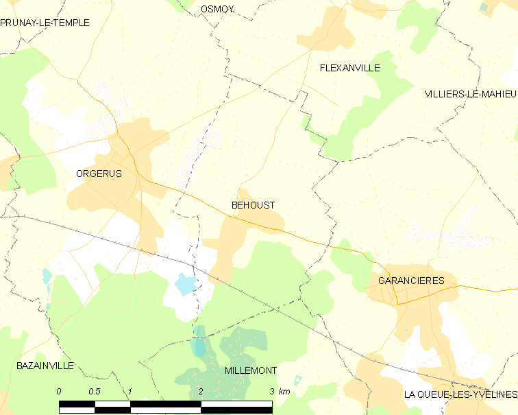 Map of French municipality Béhoust